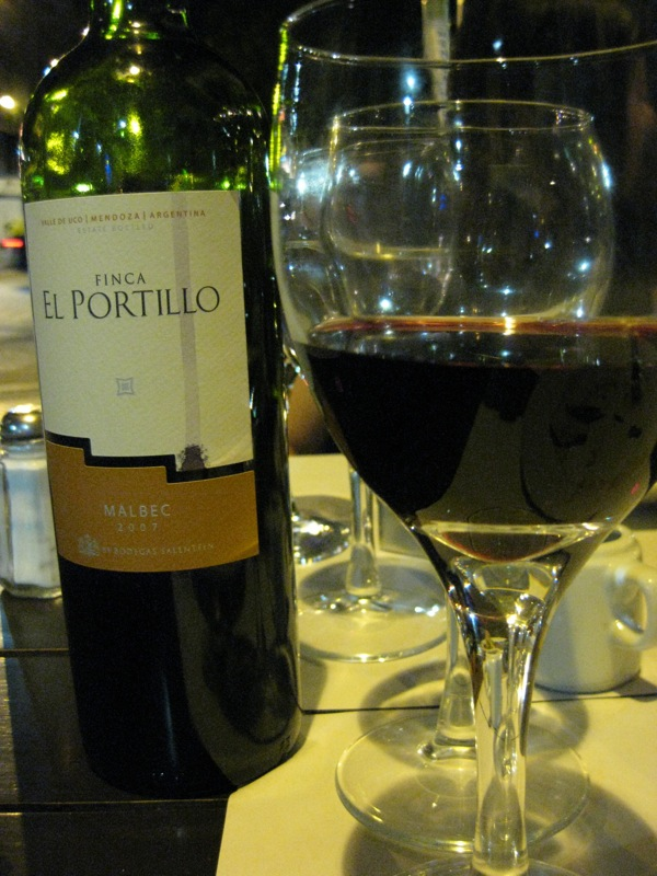 Bottle and glass of Malbec wine from Argentina